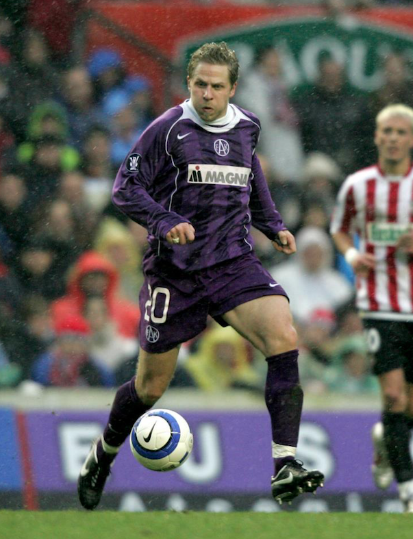 European UEFA Cup 2004/2005